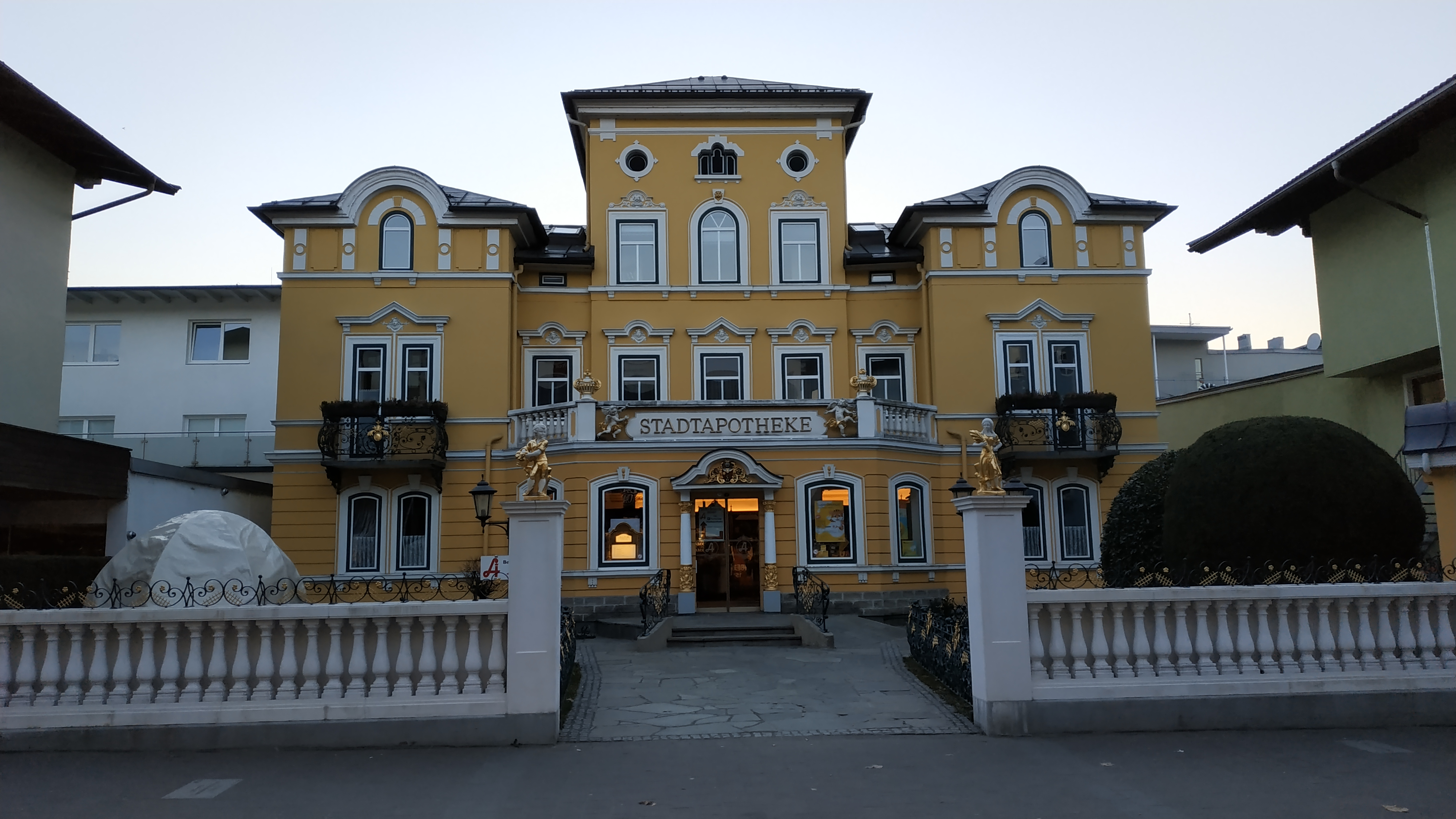 Stadtapotheke Wörgl This media shows the remarkable cultural object in the Austrian state of Tyrol listed by the Tyrolean Art Cadastre with the ID 2303. (on tirisMaps, pdf, more images on Commons)